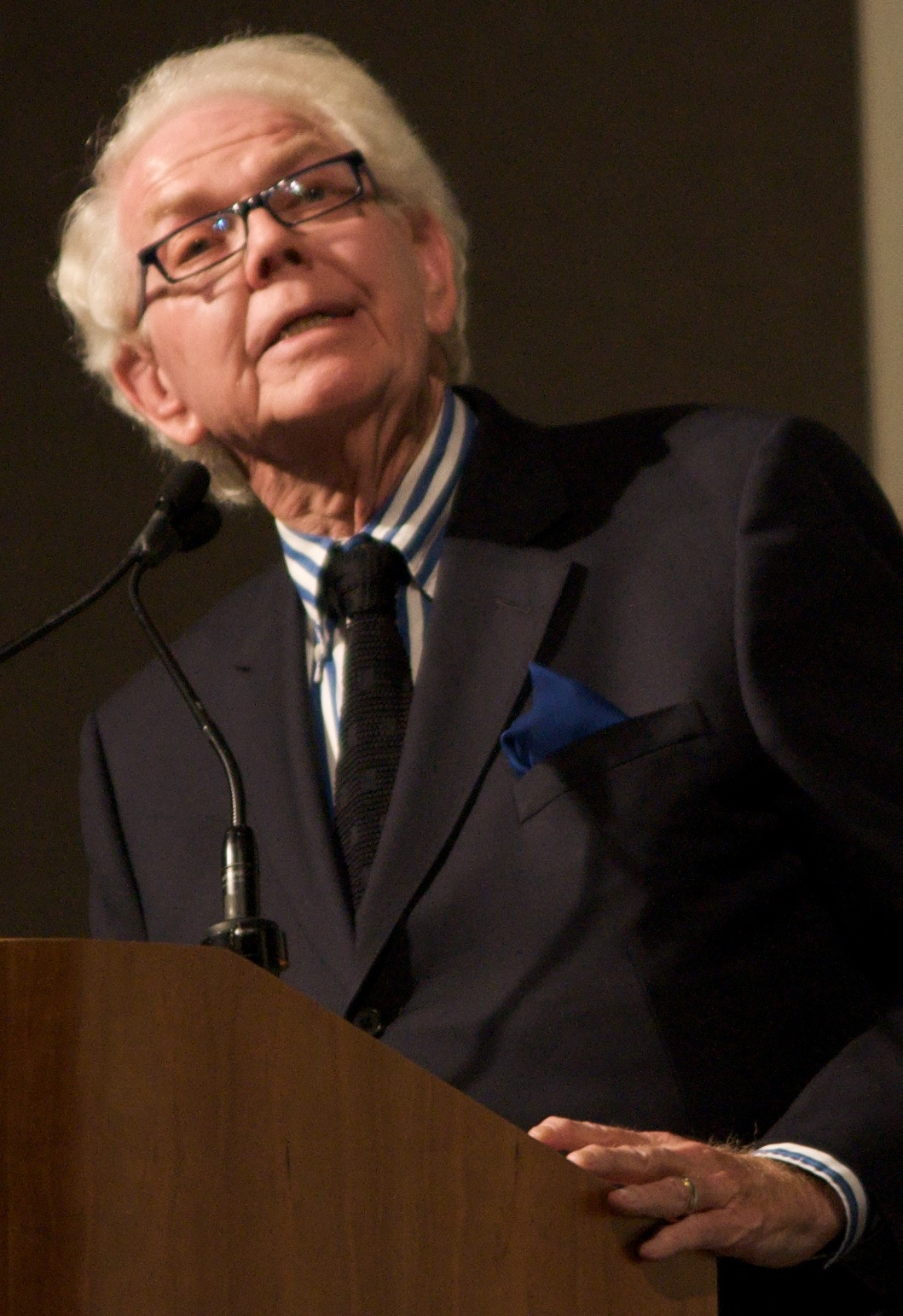 American satirist Stan Freberg at the San Diego ComicCon 2009.